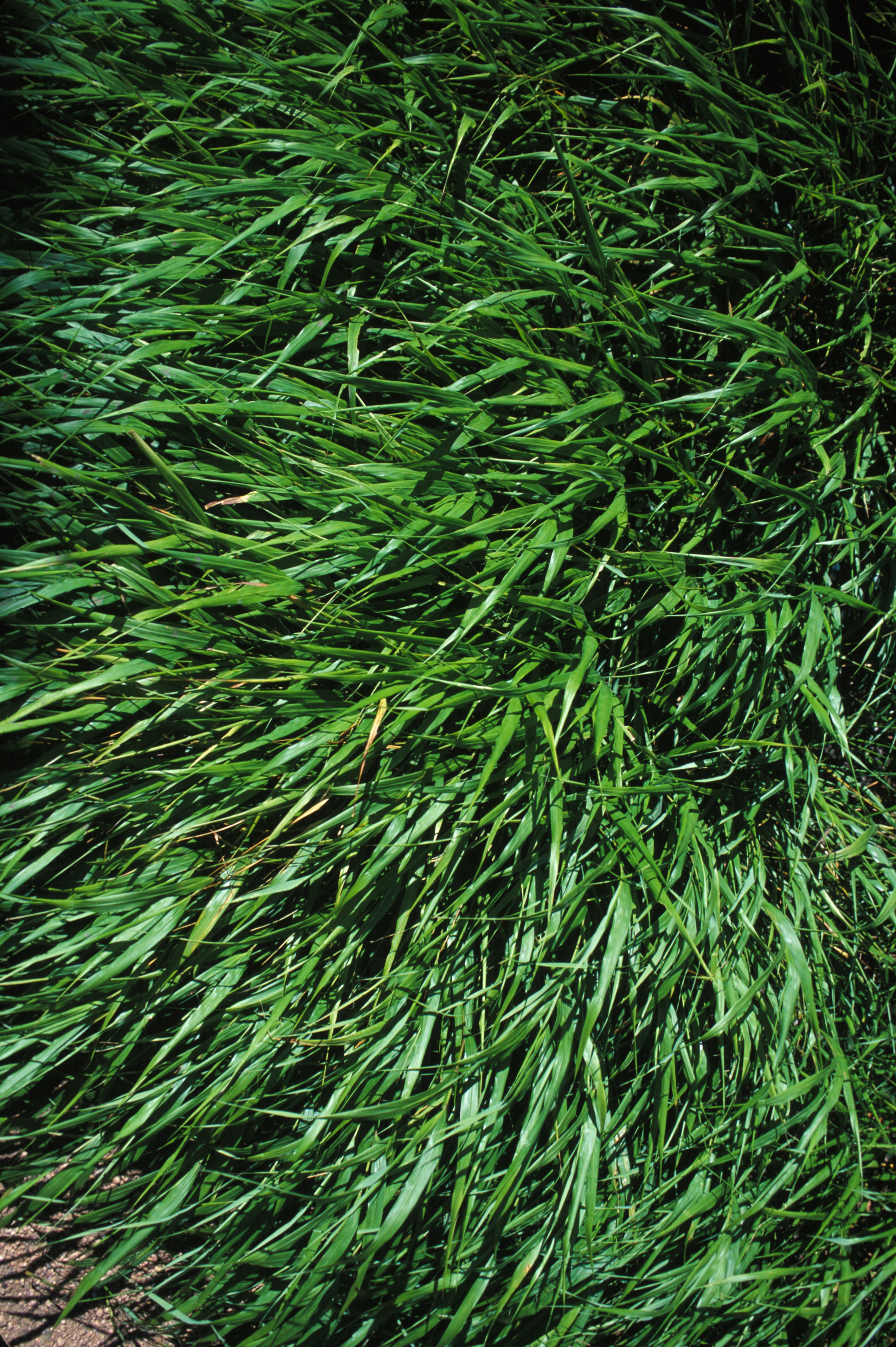 Hackelochloa sp. at Northern Illinois Botanical Gardens, Illinois, USA